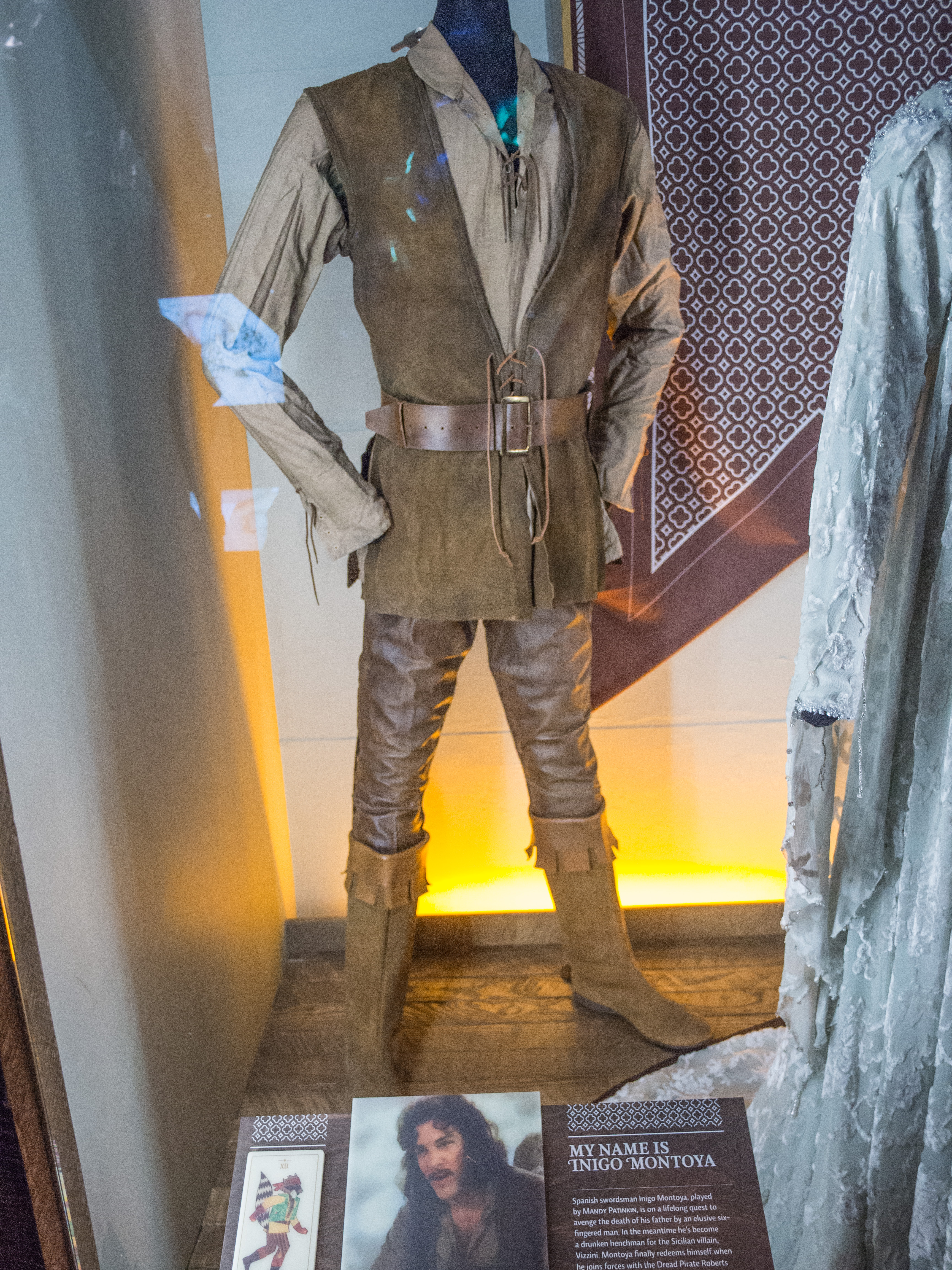 Inigo Montoya (played by Mandy Patinkin) costume from the film The Princess Bride displayed at Fantasy: Worlds of Myth and Magic, Experience Music Project/Science Fiction Hall of Fame, Seattle.